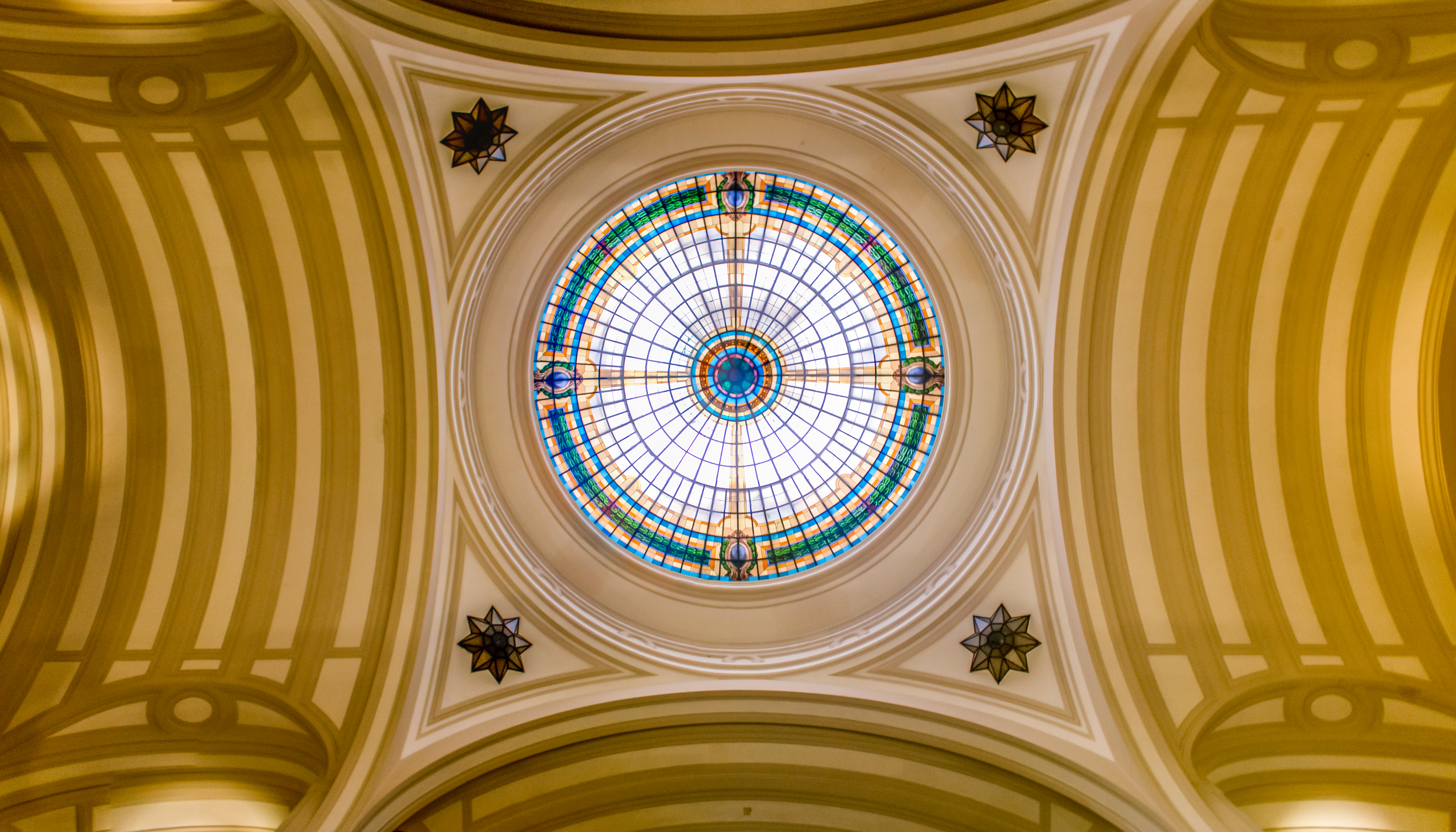 Celling of Estação Júlio Prestes (Sala São Paulo)